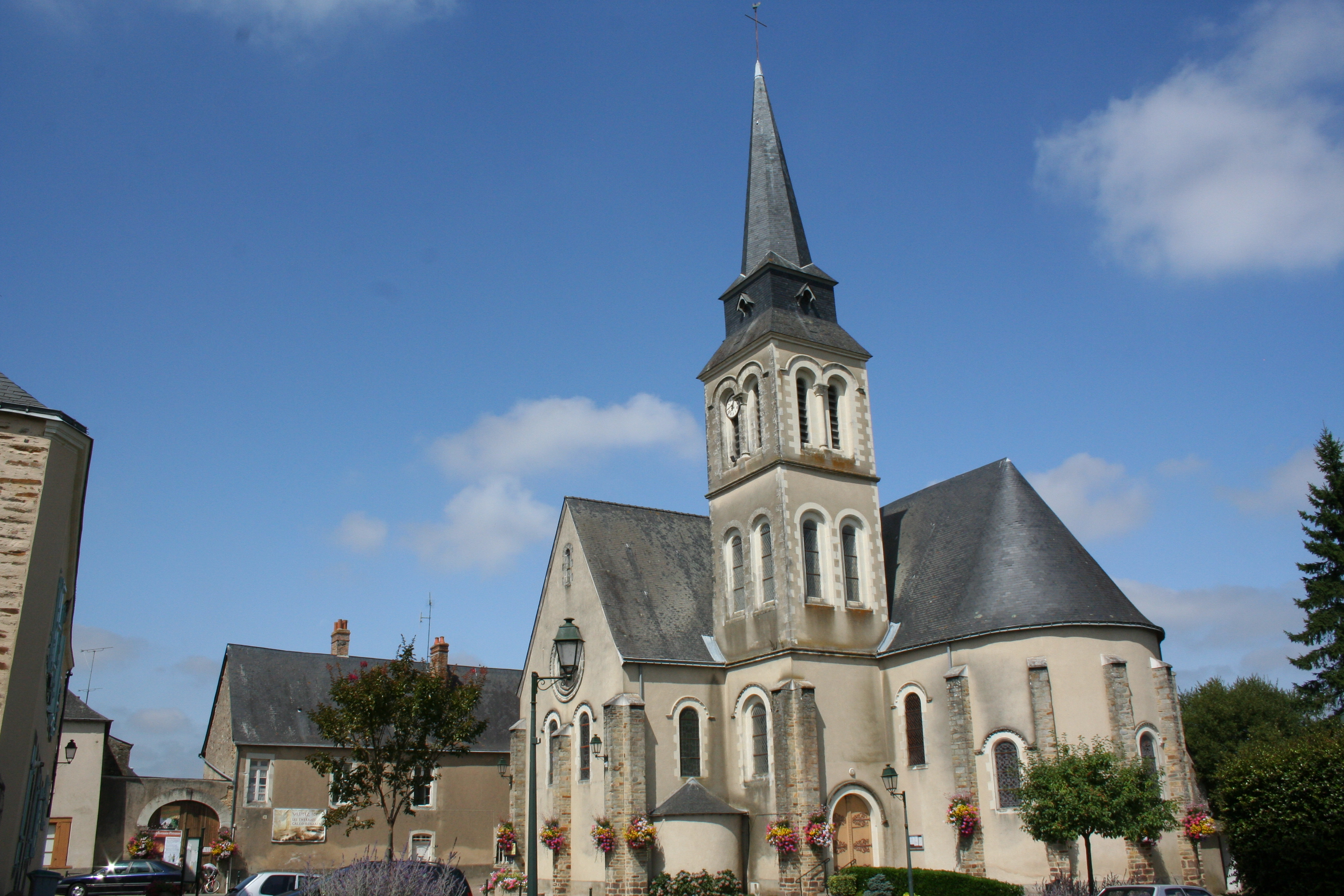 Church in Entrammes, including remains of roman baths.